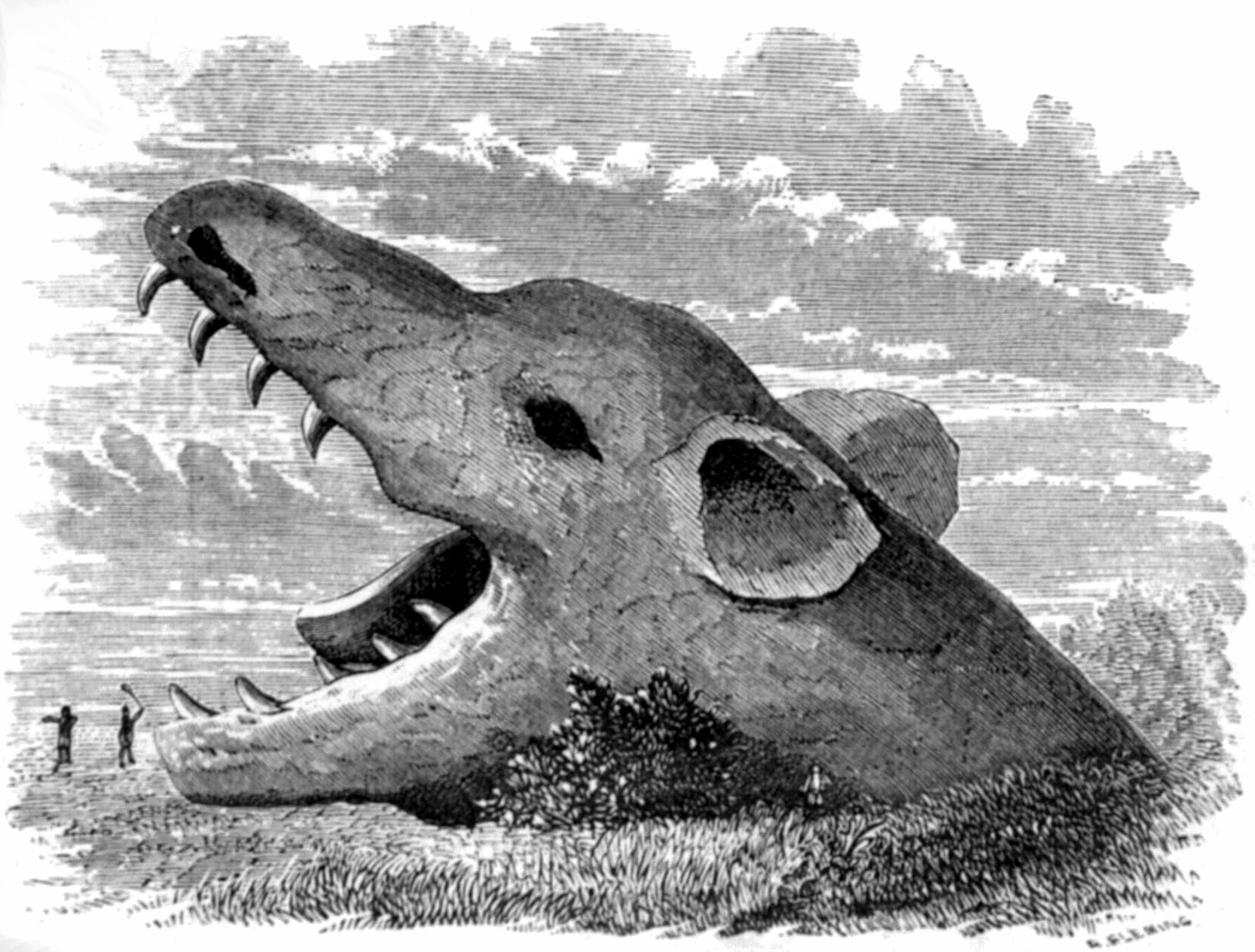 The wolf Fenrir, opening his mouth very wide indeed.